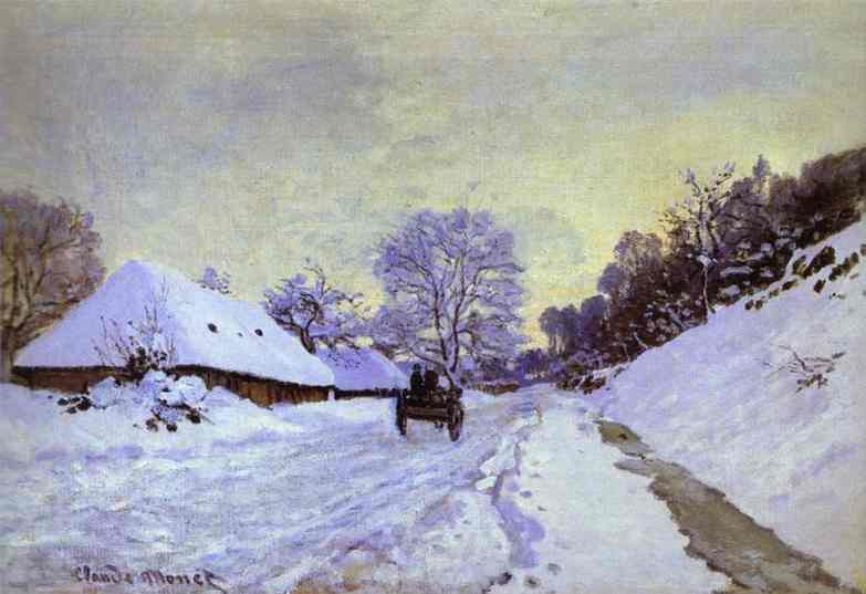 The Cart